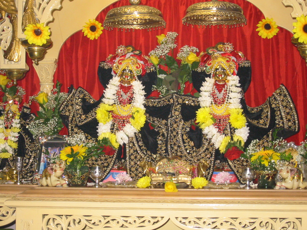 Sri Gaura Nitai (Caitanya Mahaprabhu and Nityananda): Vaishnava altar in Hare Krishna Temple, Albettone, Province of Vicenza (Italy) 2005